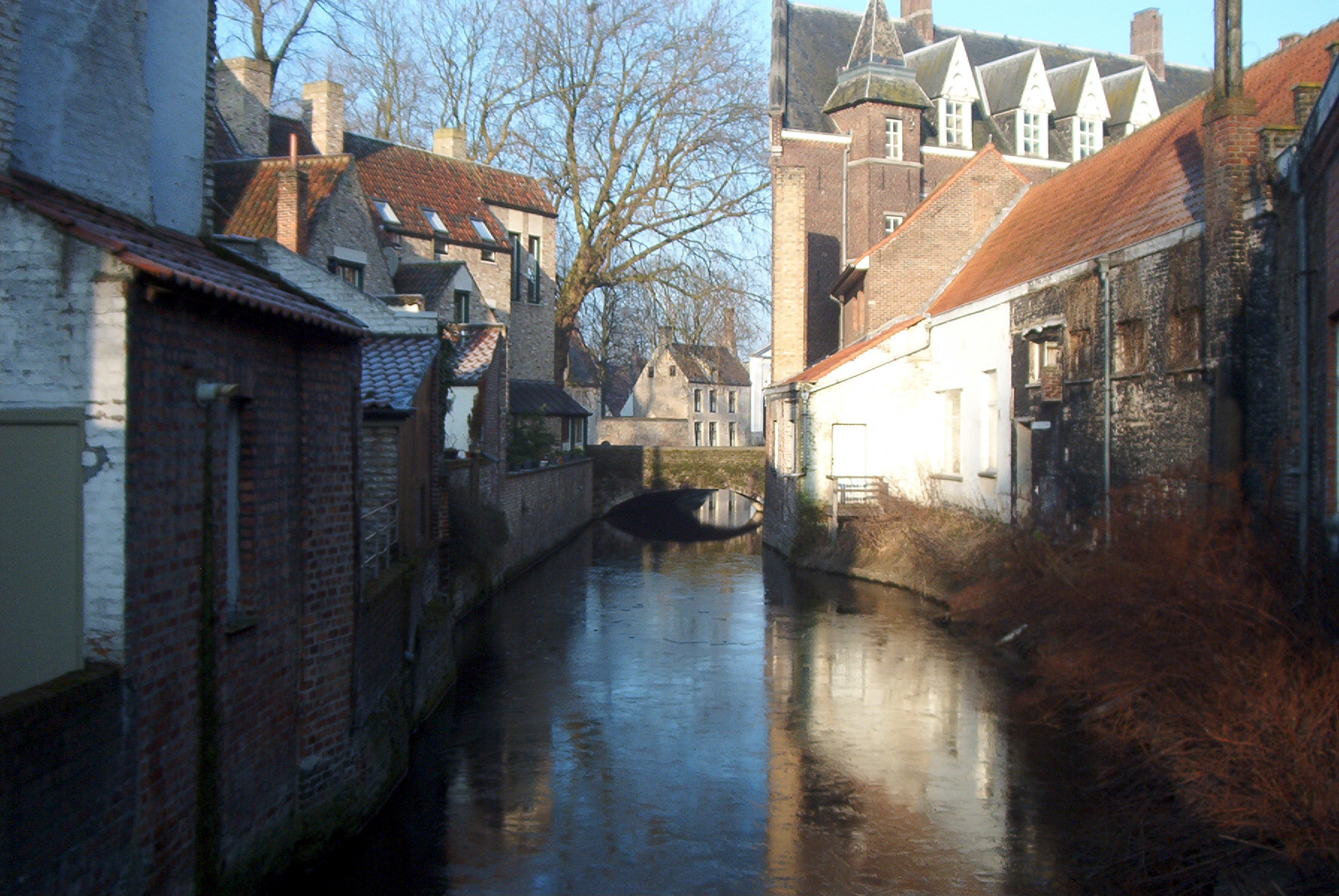 One of the many frozen canals of Bruges, Belgium, in January 2008.